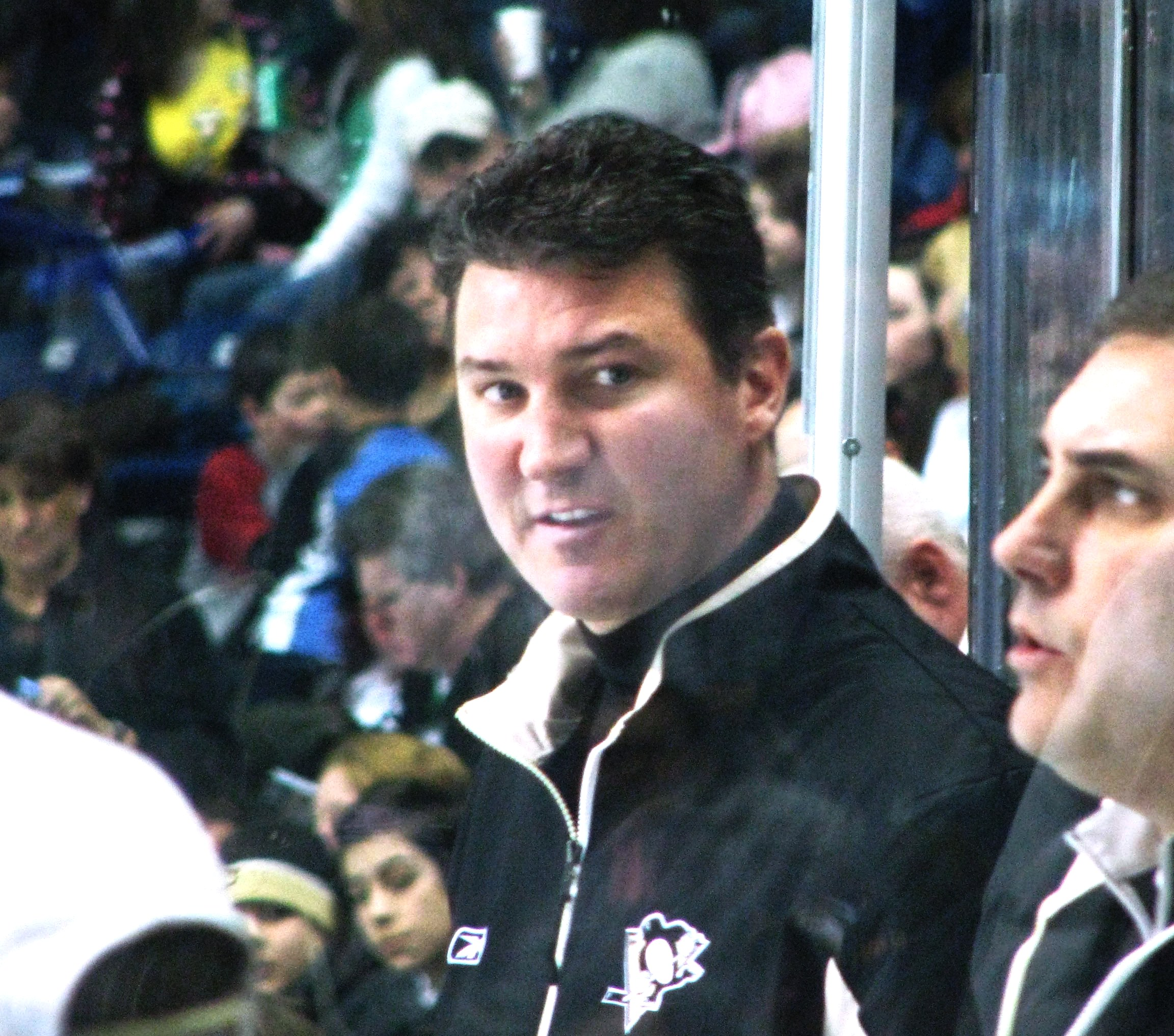 Mario Lemieux as coach of the Pittsburgh team at Quebec City's International Pee-Wee Tournament 2009